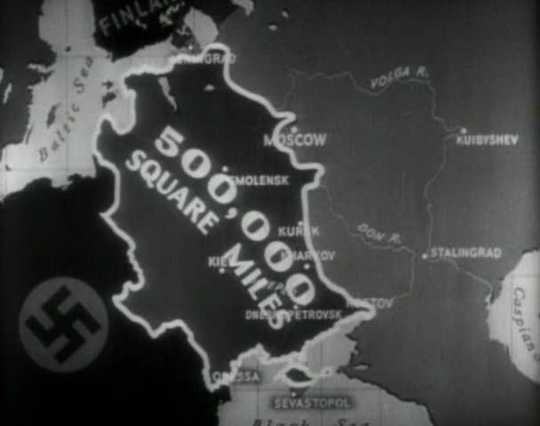 A graphic depicting Soviet territory lost by December 1941 as a result of Operation Barbarossa from the The Battle of Russia, the fifth film in the Why We Fight series.